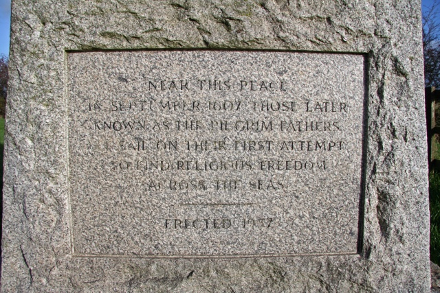 Pilgrim Fathers Memorial (closeup) The inscription on the Pilgrim Fathers Memorial says 'Near this place in September 1607 those later known as the Pilgrim Fathers set sail on their first attempt to find religious freedom across the seas'. The Pilgrim Fathers were heading for Holland, but didn't get very far on this first attempt as the captain of the boat they had hired turned them in to the authorities. They ended up in the cells in Boston Guildhall (see TF3243).